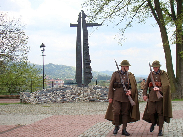 Polish 2nd Podhale Rifles Regiment